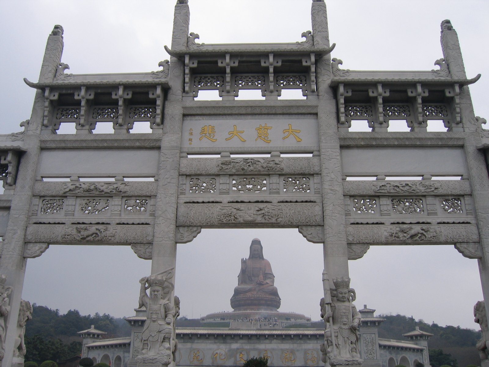 西樵山南海观音 Statue of Kuan Yin on Xiqiao Mountain, Foshan, Guangdong, China